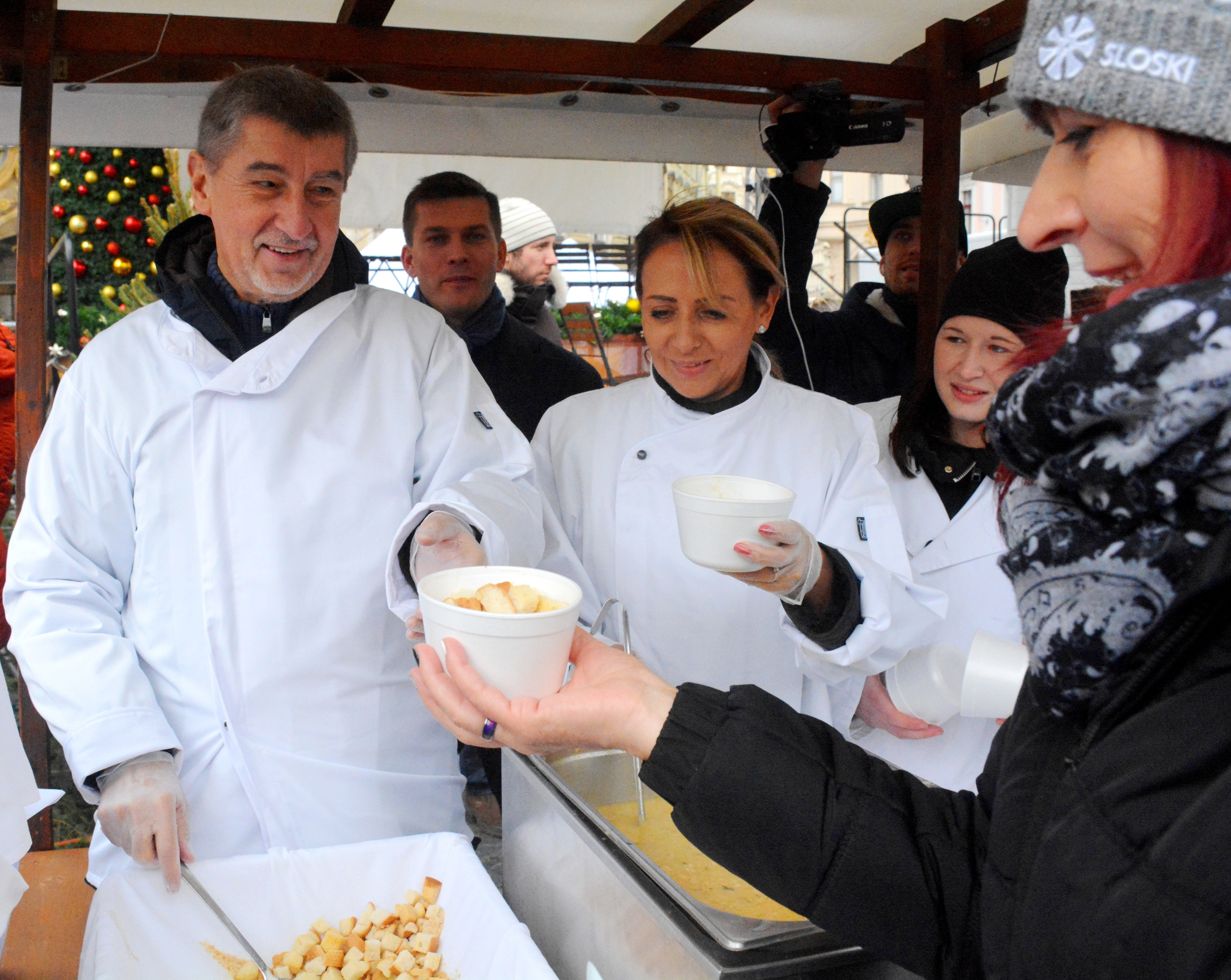 Andrej Babiš (Czech Prime Minister) and Adriana Krnáčová (Mayor of Prague) serving fish soup for free at Old Town Square in Prague.